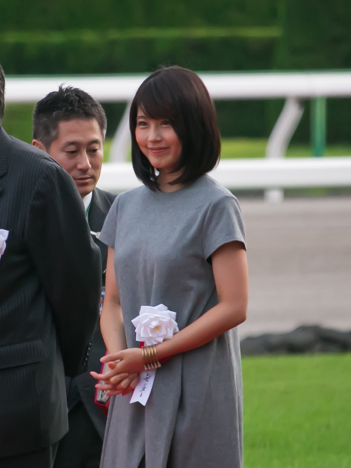 Kasumi Arimura in Kyoto Racecourse.